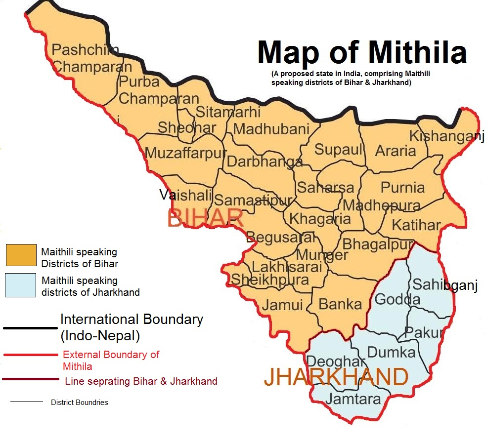 Map showing Maithili speaking region of India which is proposed for Mithila State. I covers 24 districts of Bihar and 6 districts of Jharkhand